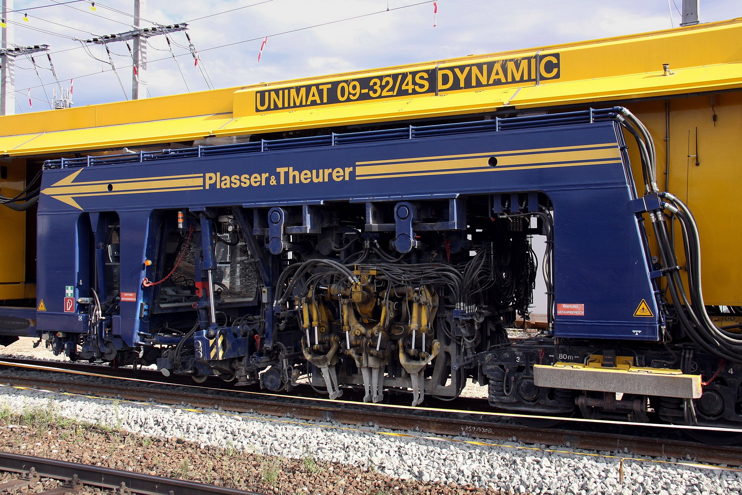 Total remodeling, renovation and modernization of Neunkirchen railwaystation. – Tramper "Unimat 09-32/4S Dynamic"